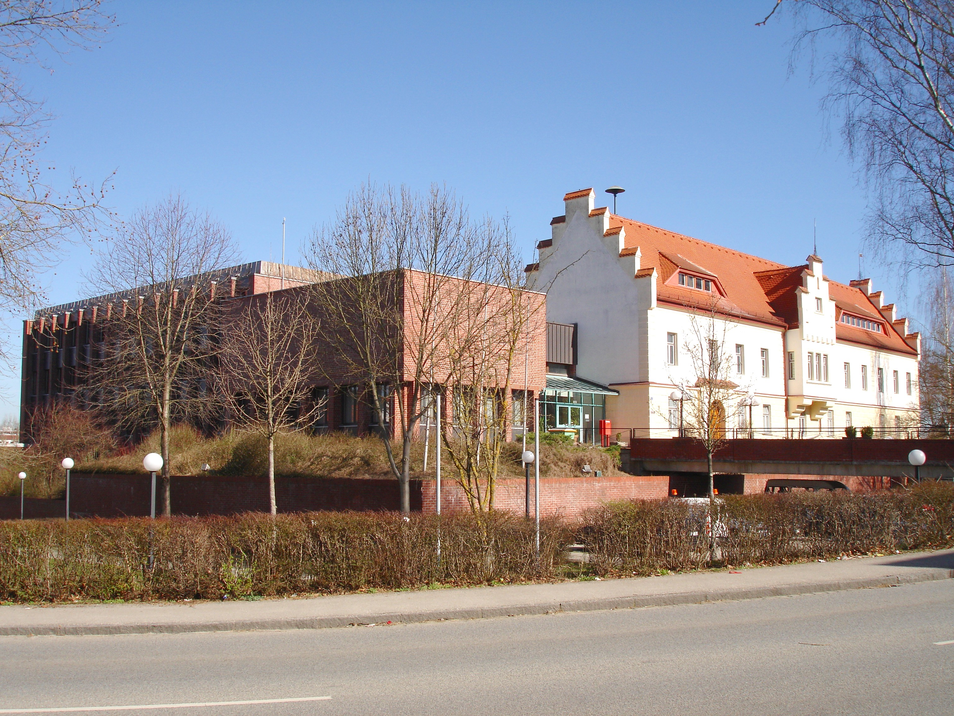 Town hall of Markt Schwaben, county Ebersberg, Bavaria, Germany